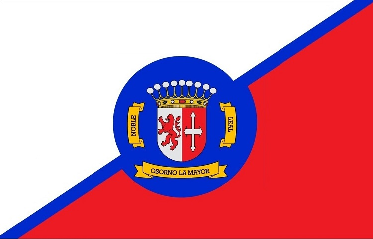 Bandera